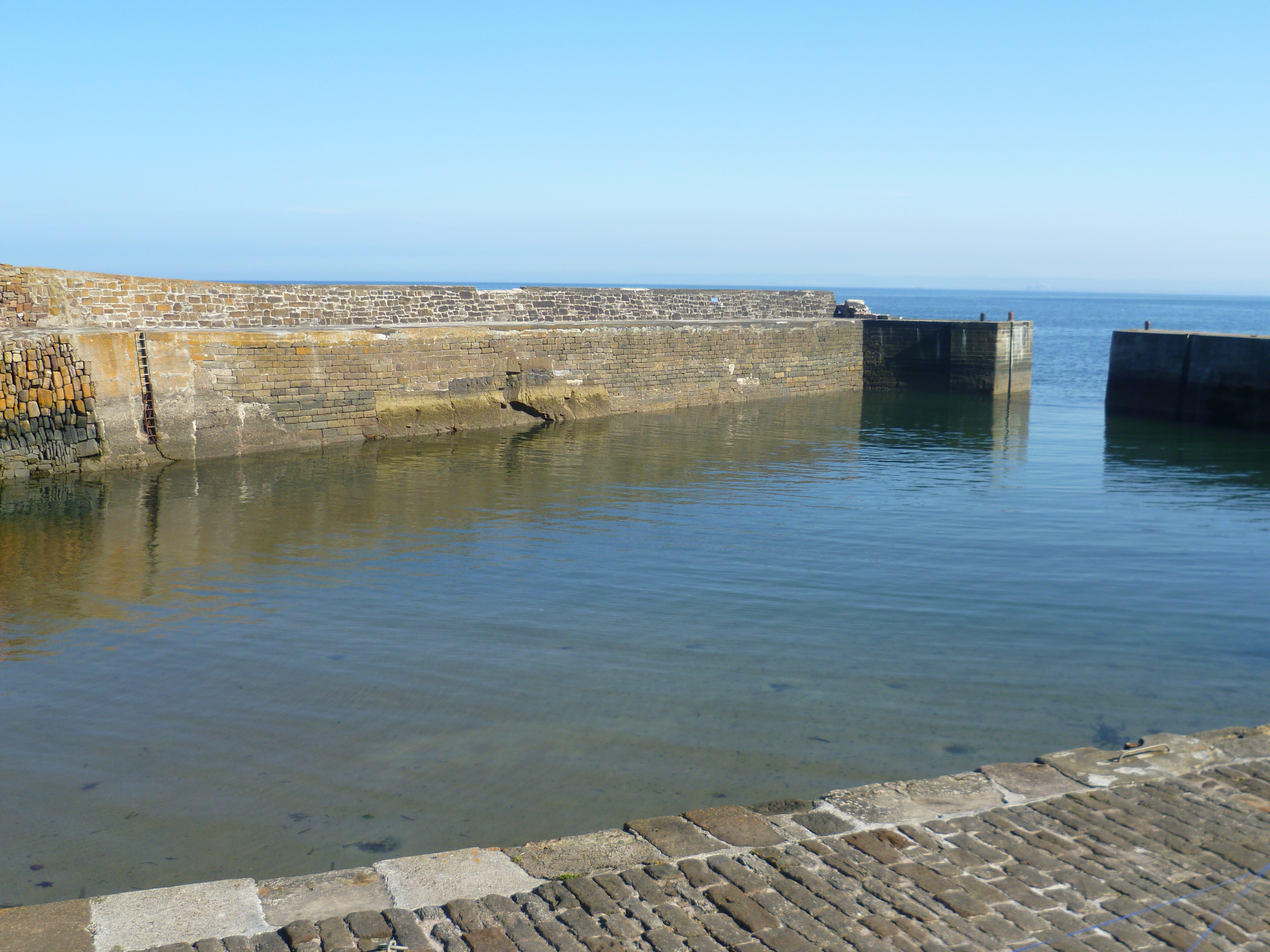 Harbour entrance, Cellardyke, Fife